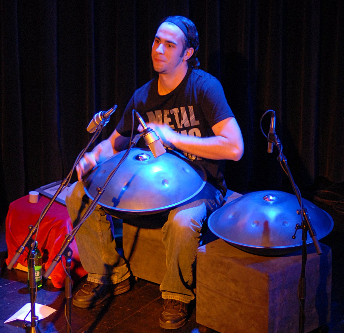 Manu Delago playing two hanghang in a concert